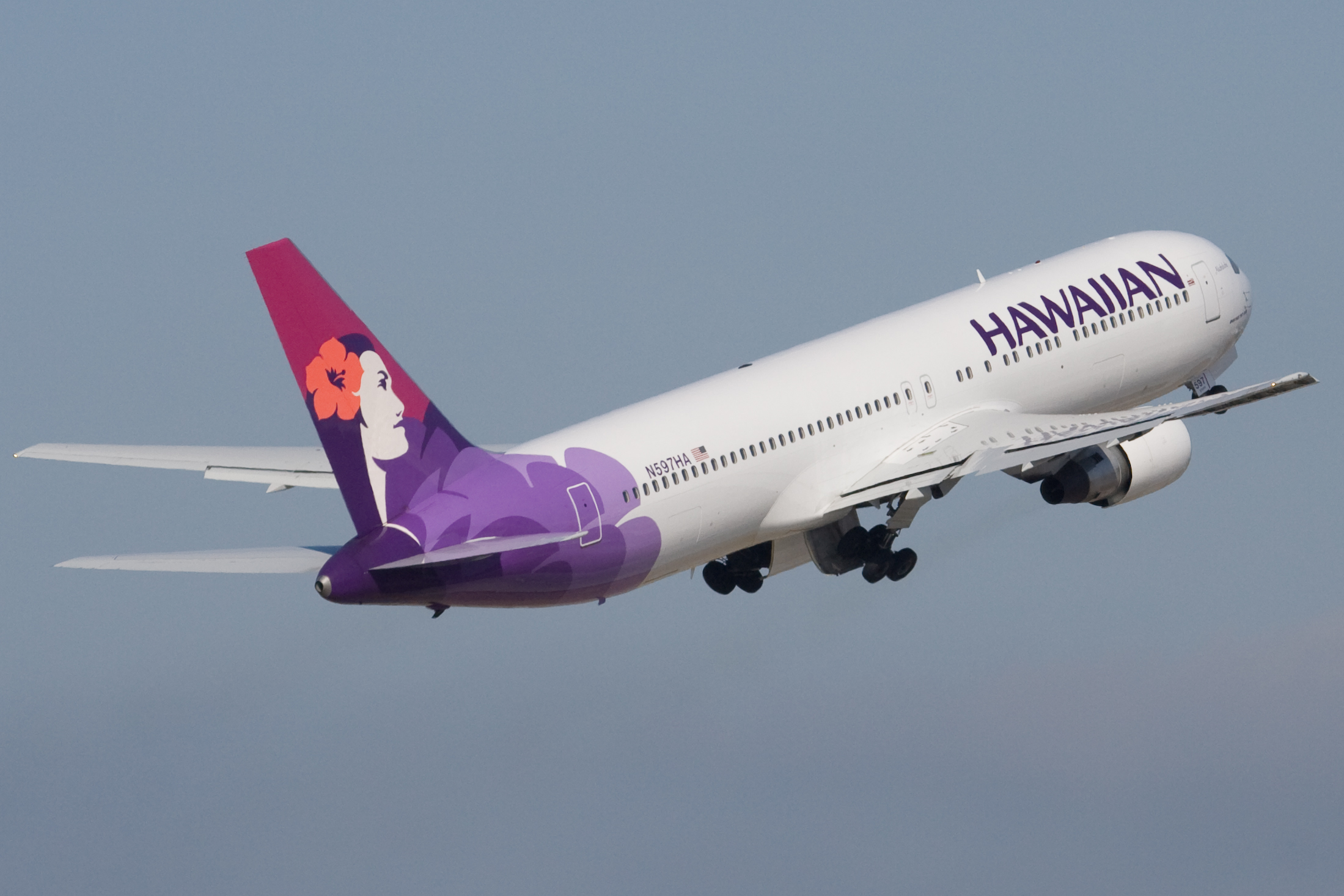 Hawaiian Airlines Boeing 767 (N597HA) taking off.